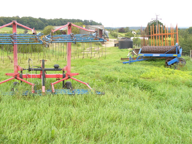 Grass Harrow by Cattle Manger, near to Thorncombe Street, Surrey, Great Britain. An interesting collection of agricultural machinery in the paddock by the bridleway.